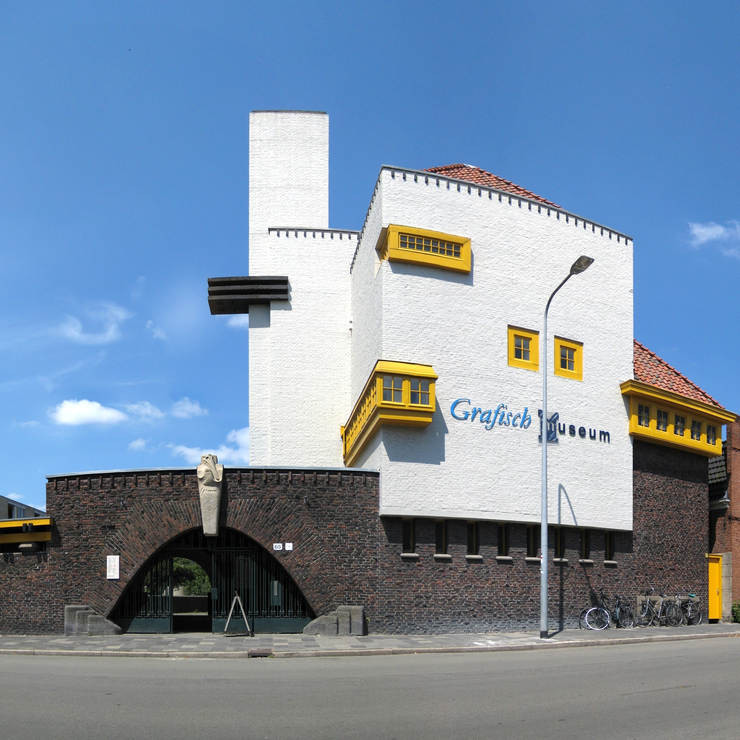 The Grafisch Museum Groningen, a museum in the Dutch city of Groningen. The building, a former school built in 1928-'29, was designed by the Dutch architect Siebe Jan Bouma.